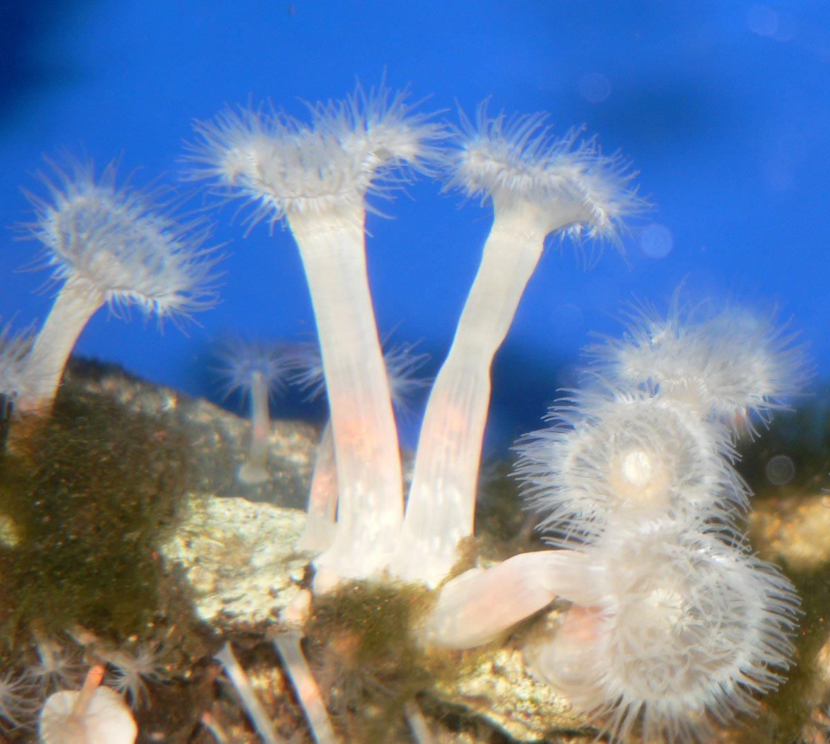 Photo of very small Metridium senile at the Steinhart Aquarium in San Francisco